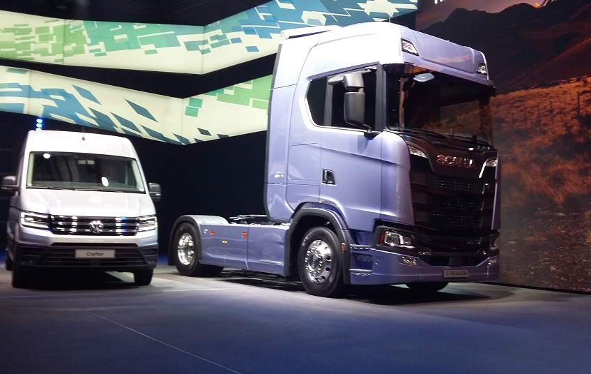 Volkswagen Crafter und Scanias neueste Truck Generation